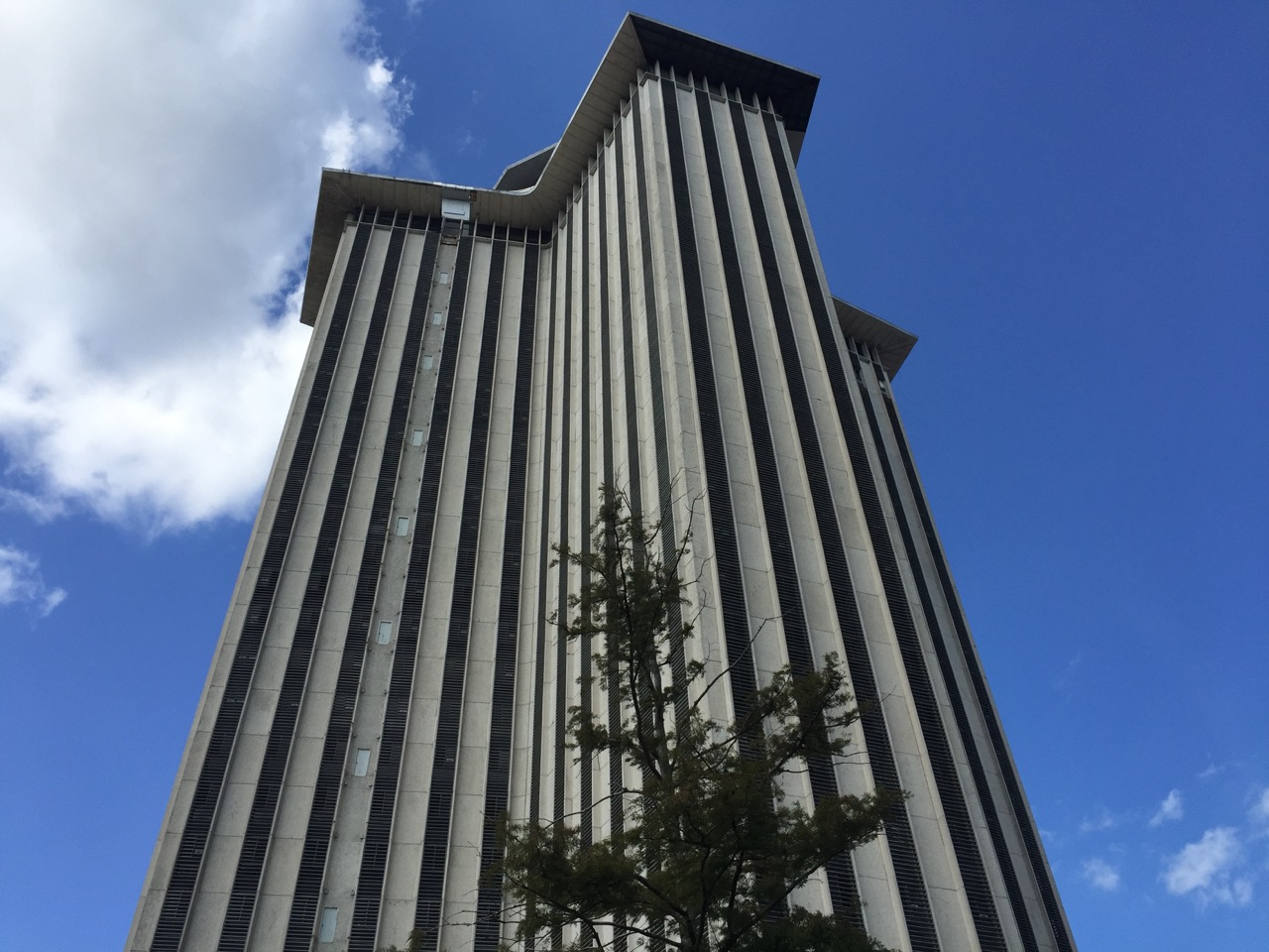 This photo of the World Trade Center in New Orleans was taken in September 2016.